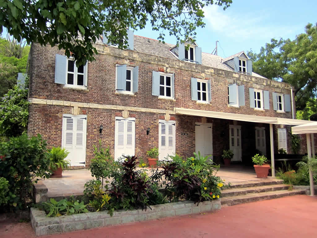 The Admiral's Inn (1788) at Nelson's Dockyard, Antigua, is now a hotel and restaurant.